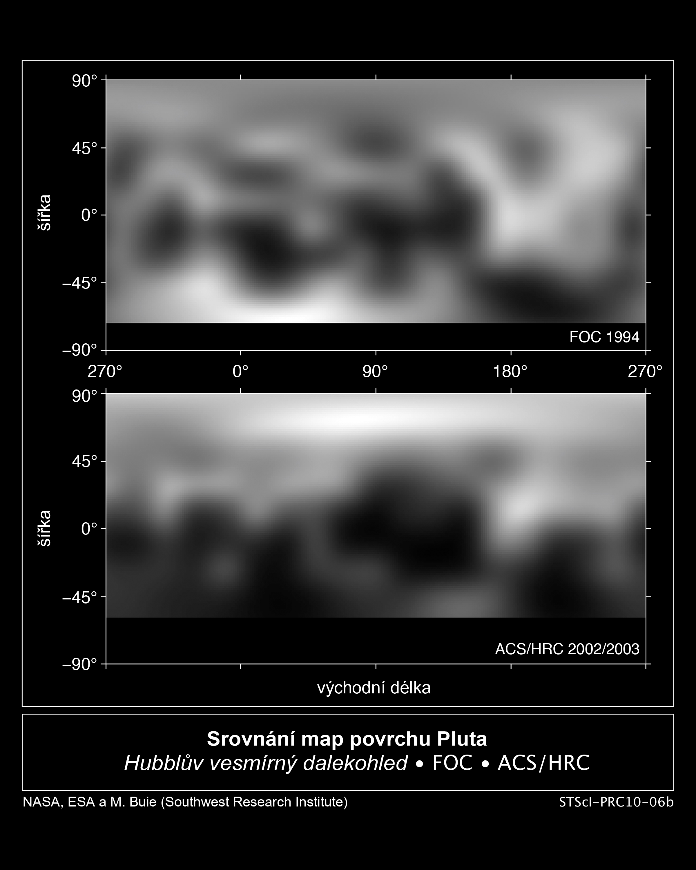 These are two Hubble photo maps of the dwarf planet Pluto, as seen in 1994 and 2002-2003. The pictures show that the Pluto's surface changes over time.